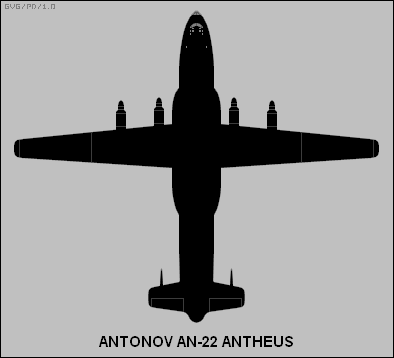 Antonov An-22